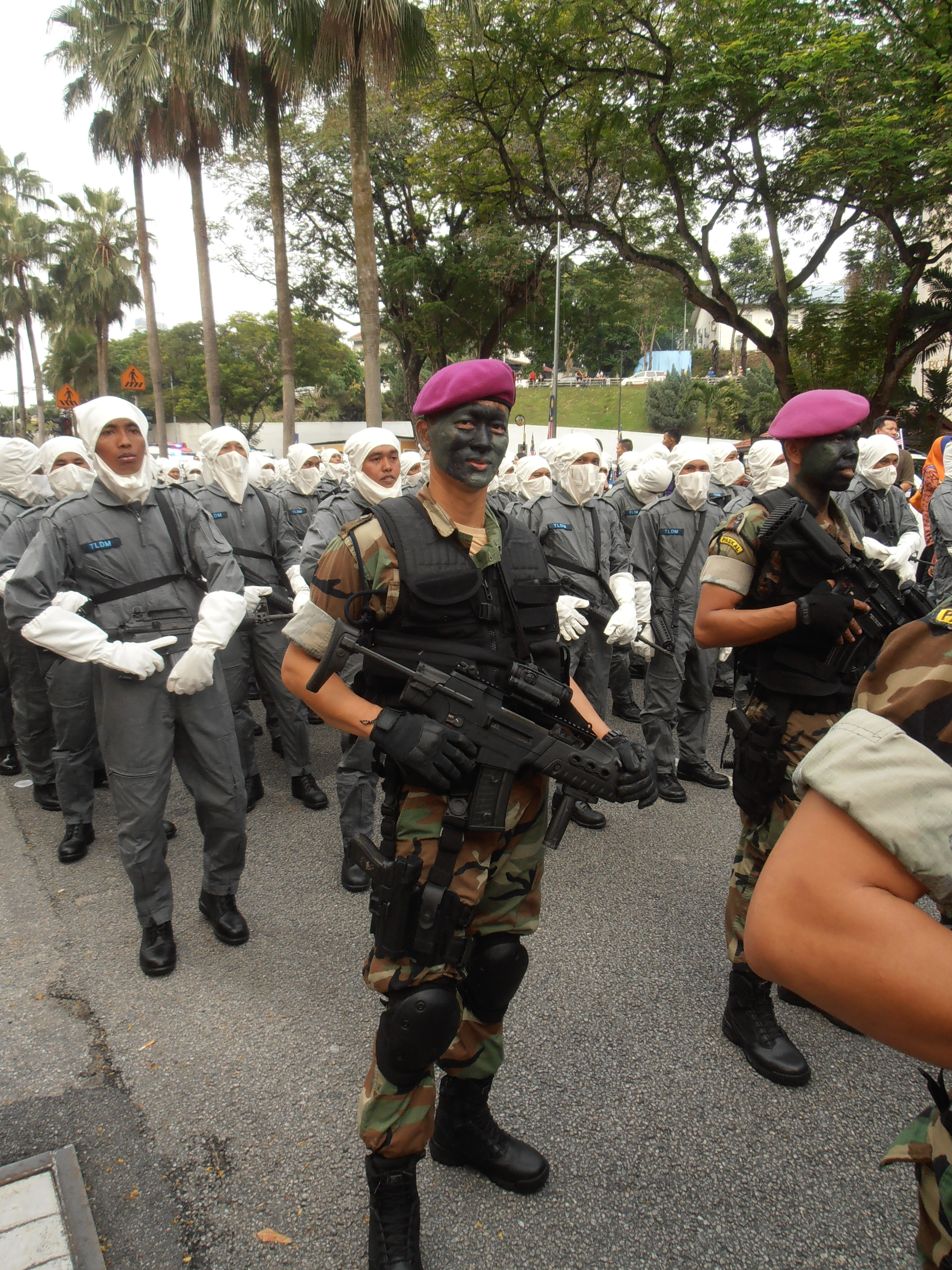 The PASKAL rifleman with the HK XM8 Compact Carbine 9 inches standby during the 57th National Day Parade of Malaysia at Merdeka Square, Kuala Lumpur.